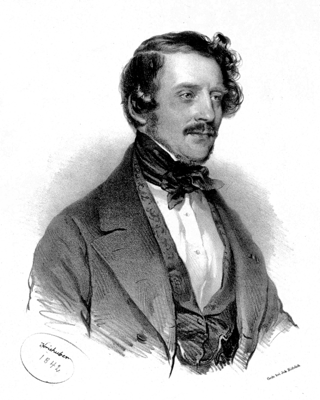 Description: Lithograph portrait of Gaetano Donizetti